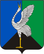 Borzya (Chita oblast), coat of arms